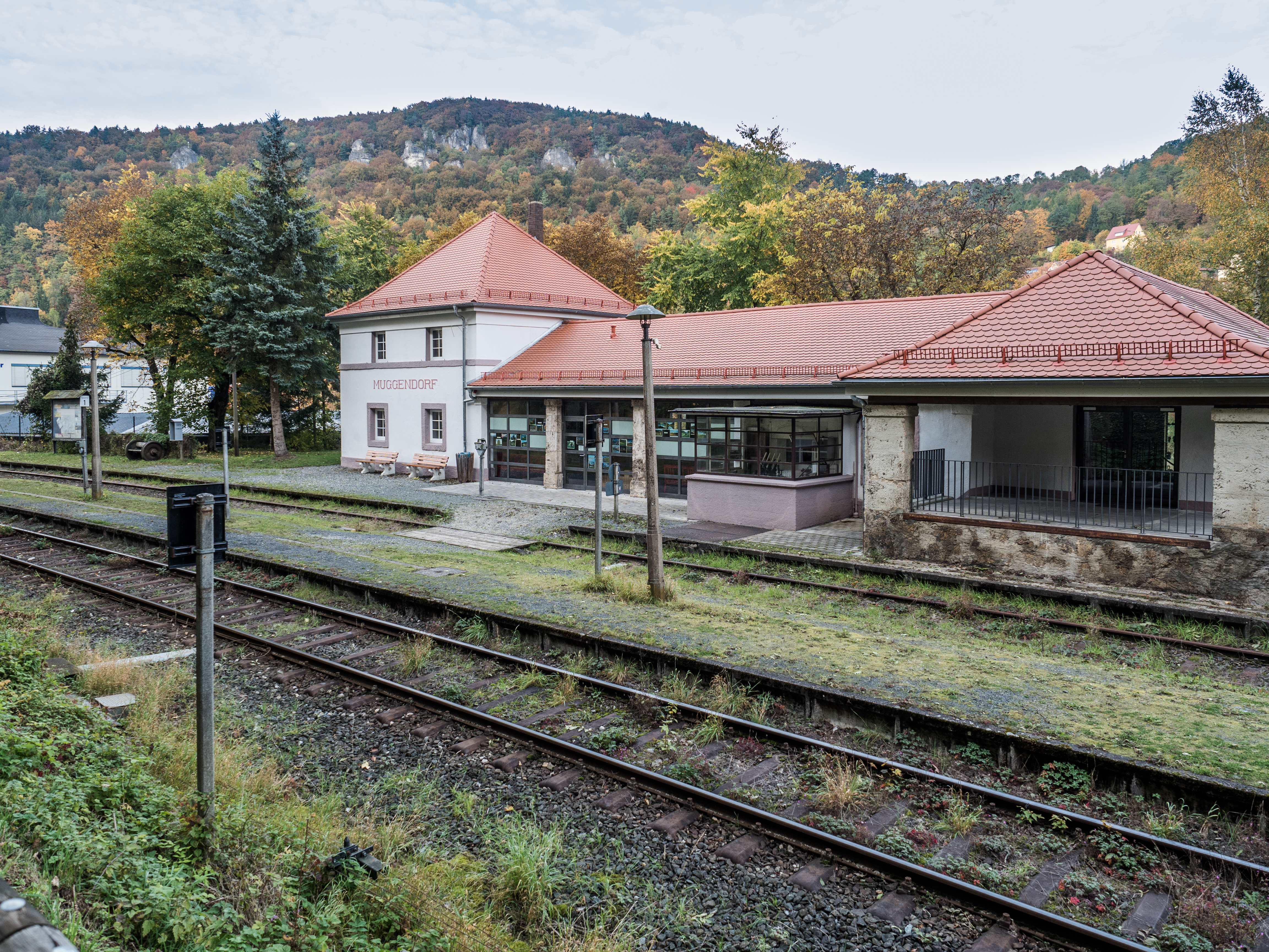 Station of Muggendorf